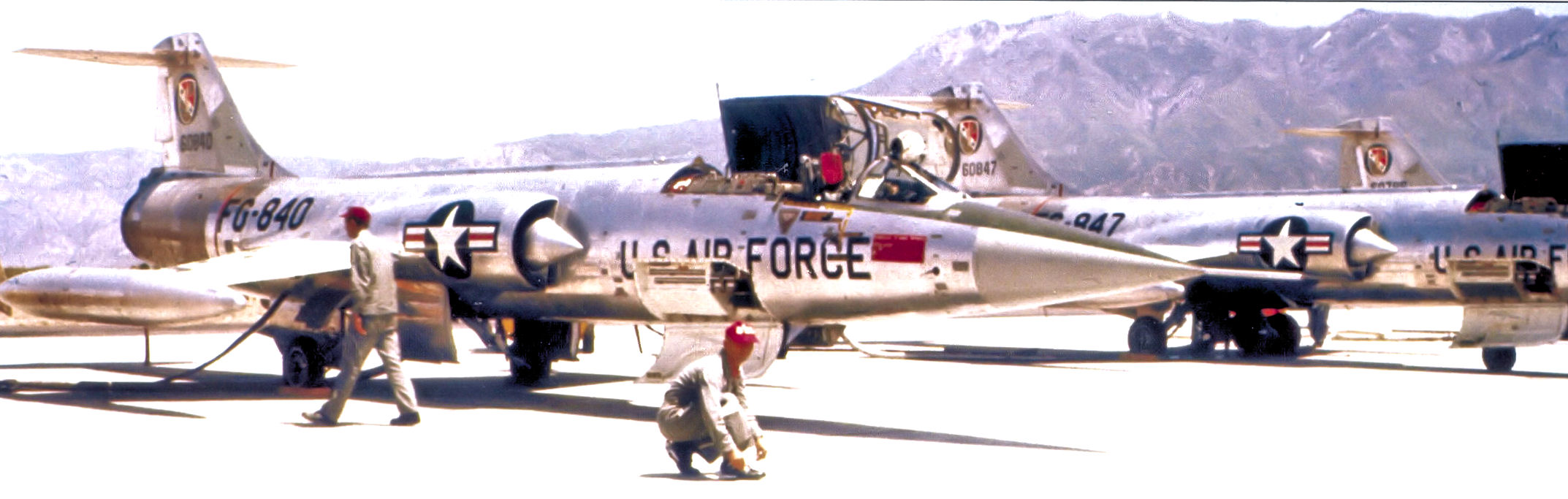 538th Fighter-Interceptor Squadron Lockheed F-104A-25-LO Starfighter 56-840 and 56-847. Aircraft assigned to Larson AFB, Washington, 1958; shown TDY at Luke AFB, Arizona. 847 crashed Feb 28, 1960 at Nellis AFB, NV due to engine failure. Pilot killed.